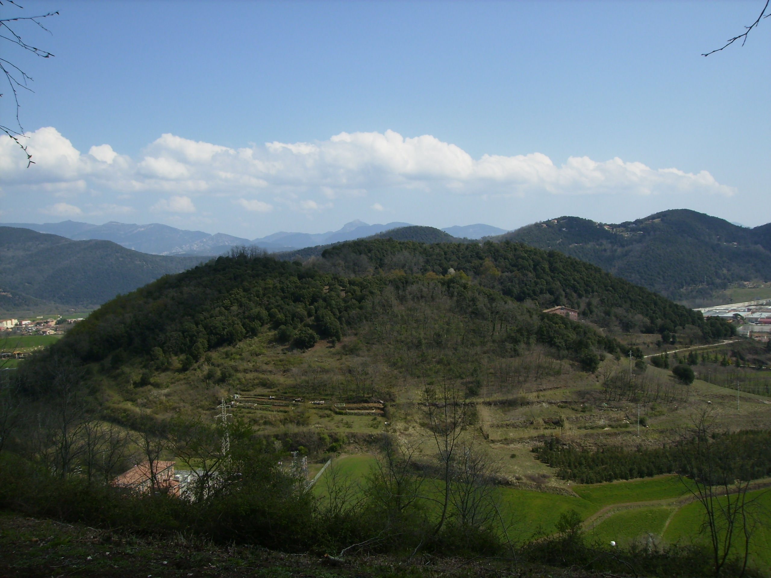 Garrinada volcanoe in Olot (Catalonia)